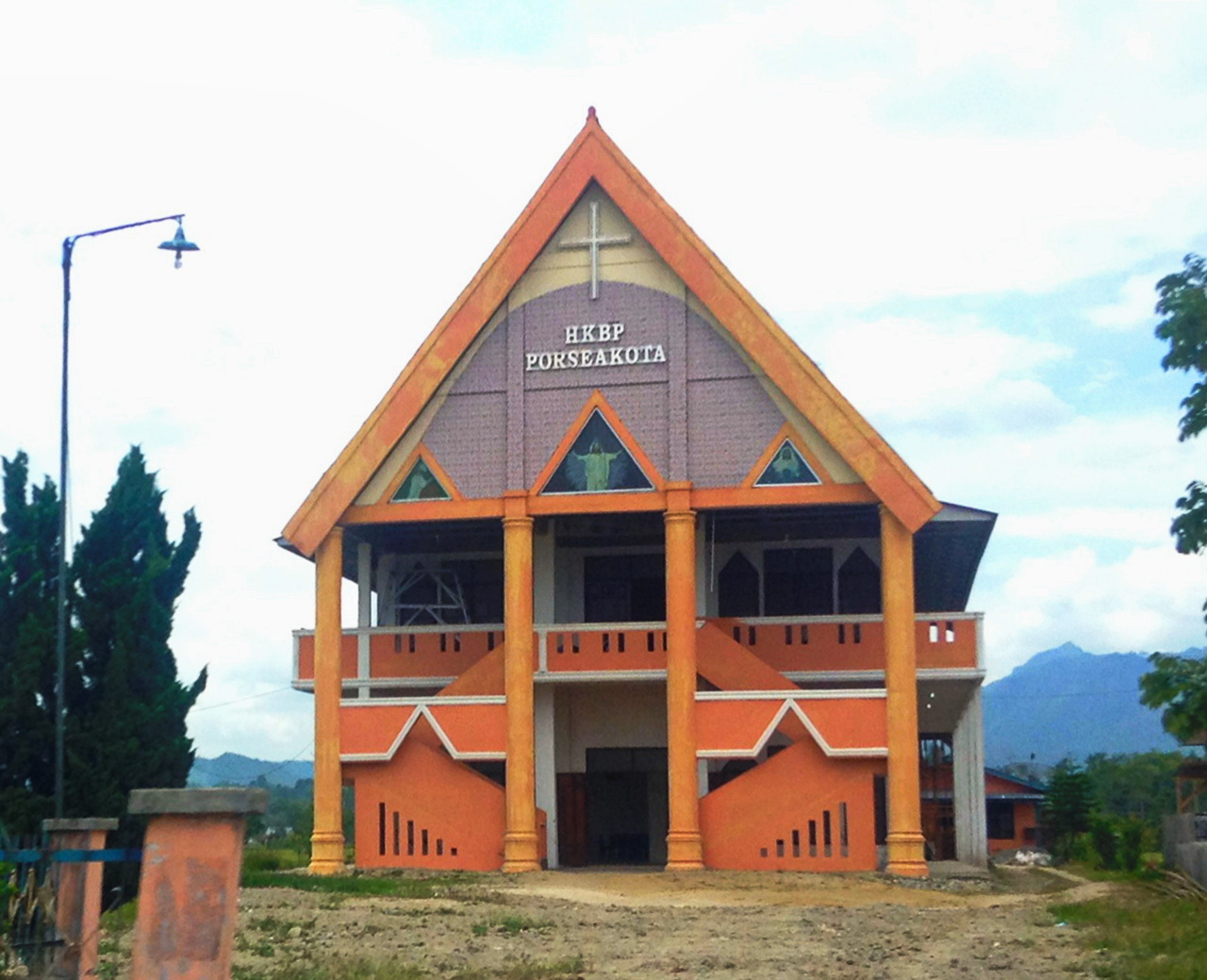 HKBP Porsea Kota, Church in Porsea, Toba Samosir